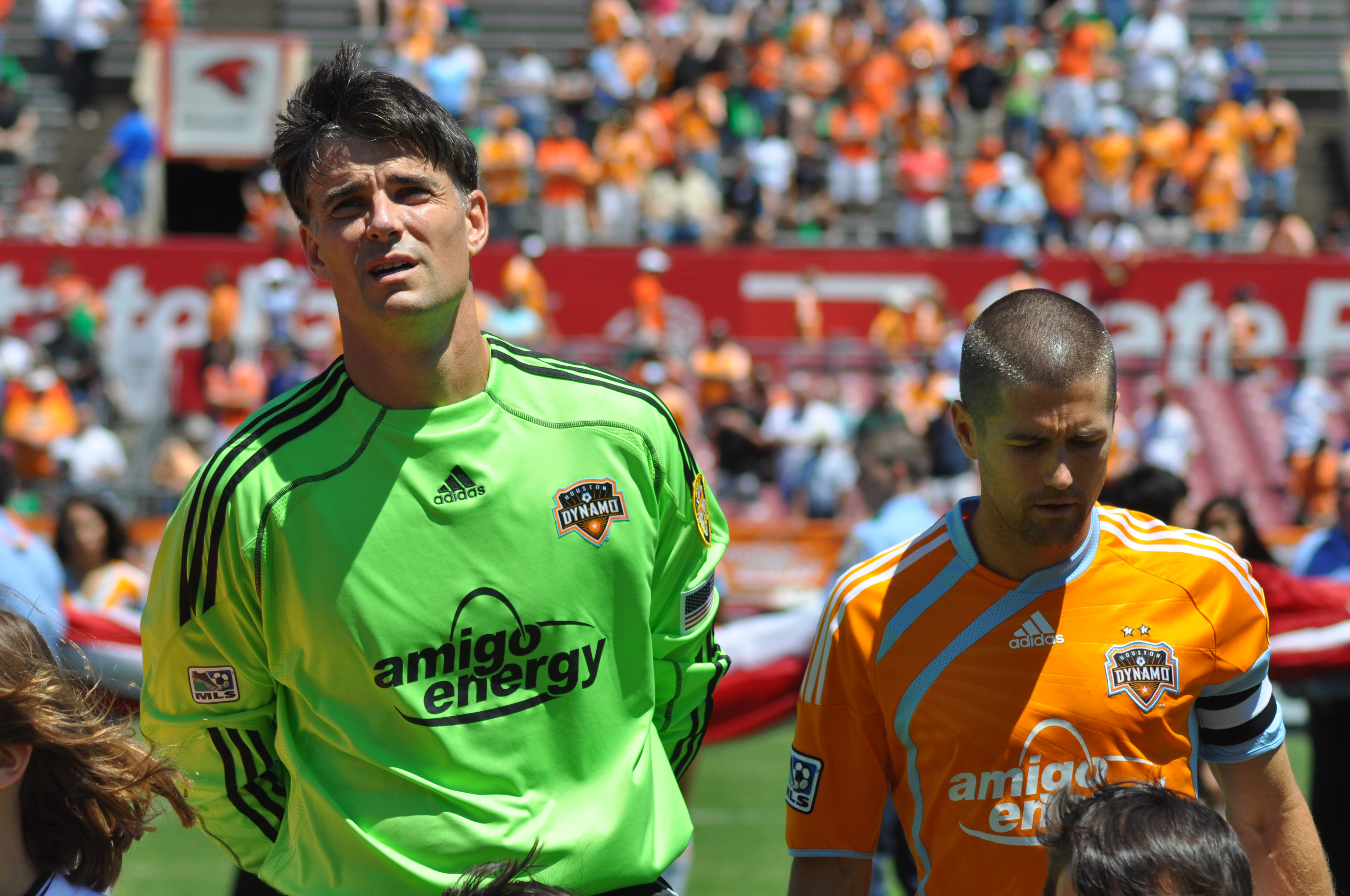 Dynamo players line up prior to the April 19 2009 Major League Soccer game between Houston Dynamo and the Colorado Rapids.